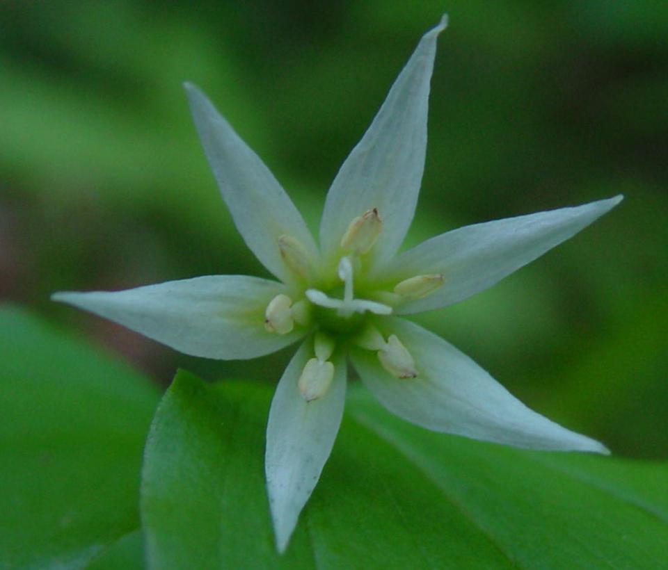 Disporum smilacinum in Mount Yake, Takayama, Gifu prefecture, Japan.